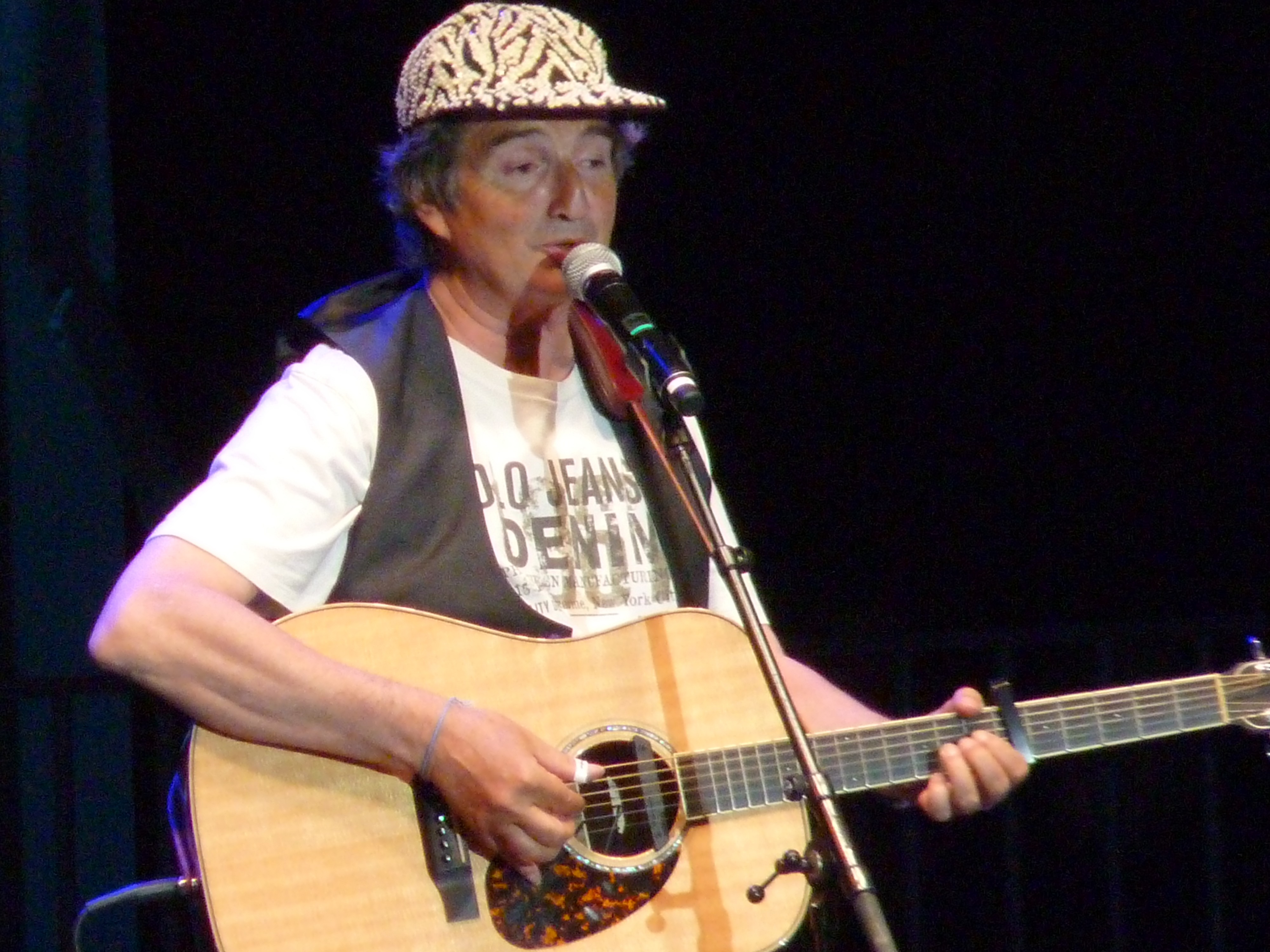 Hervé Cristiani performing at La Nuit des Hits of Juan-les-Pins for Enfant Star & Match association.